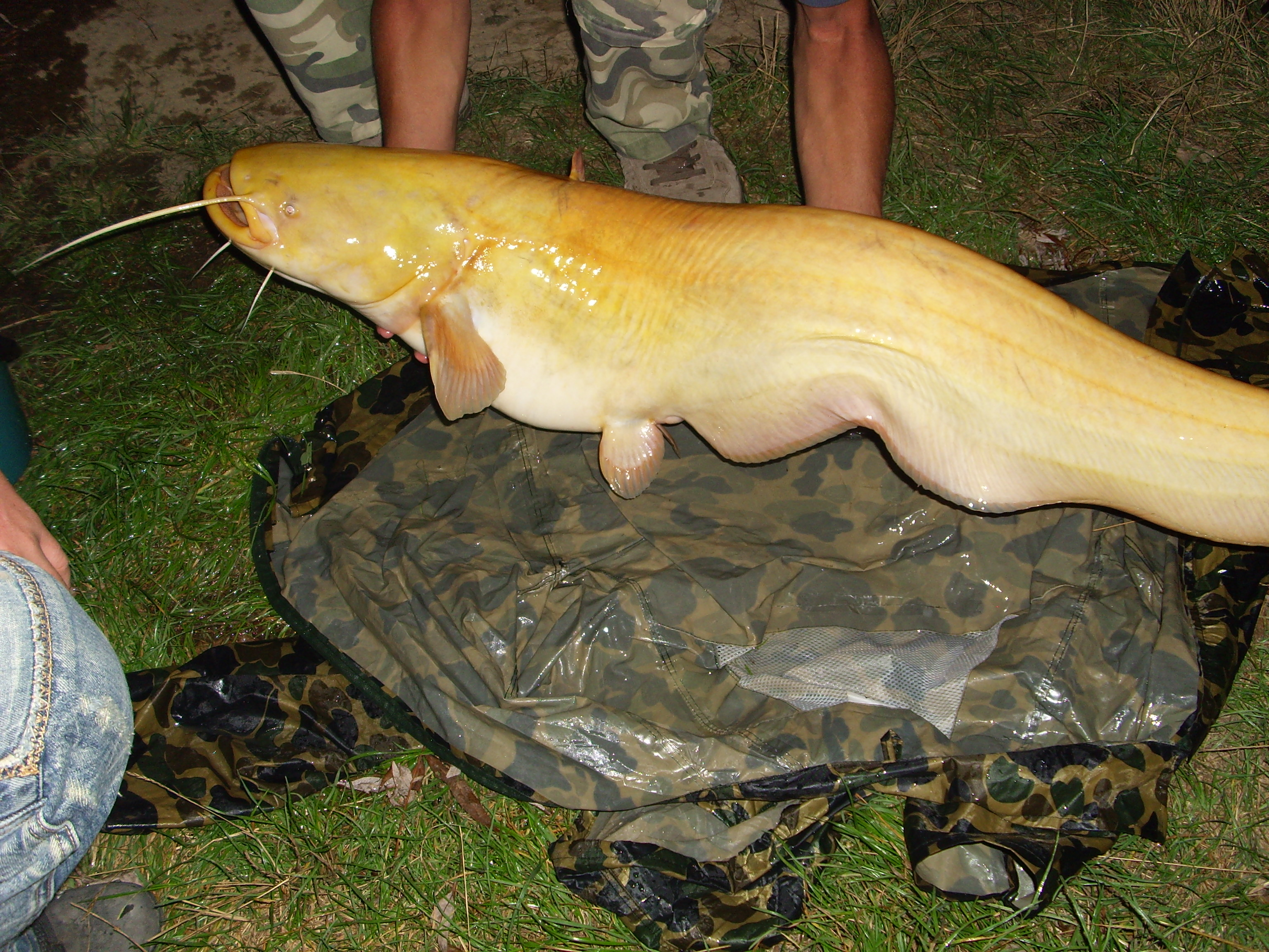 Silurus glanis albino (Wels catfish), 121 cm